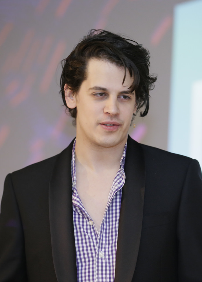 Milo Yiannopoulos (The Kernel)